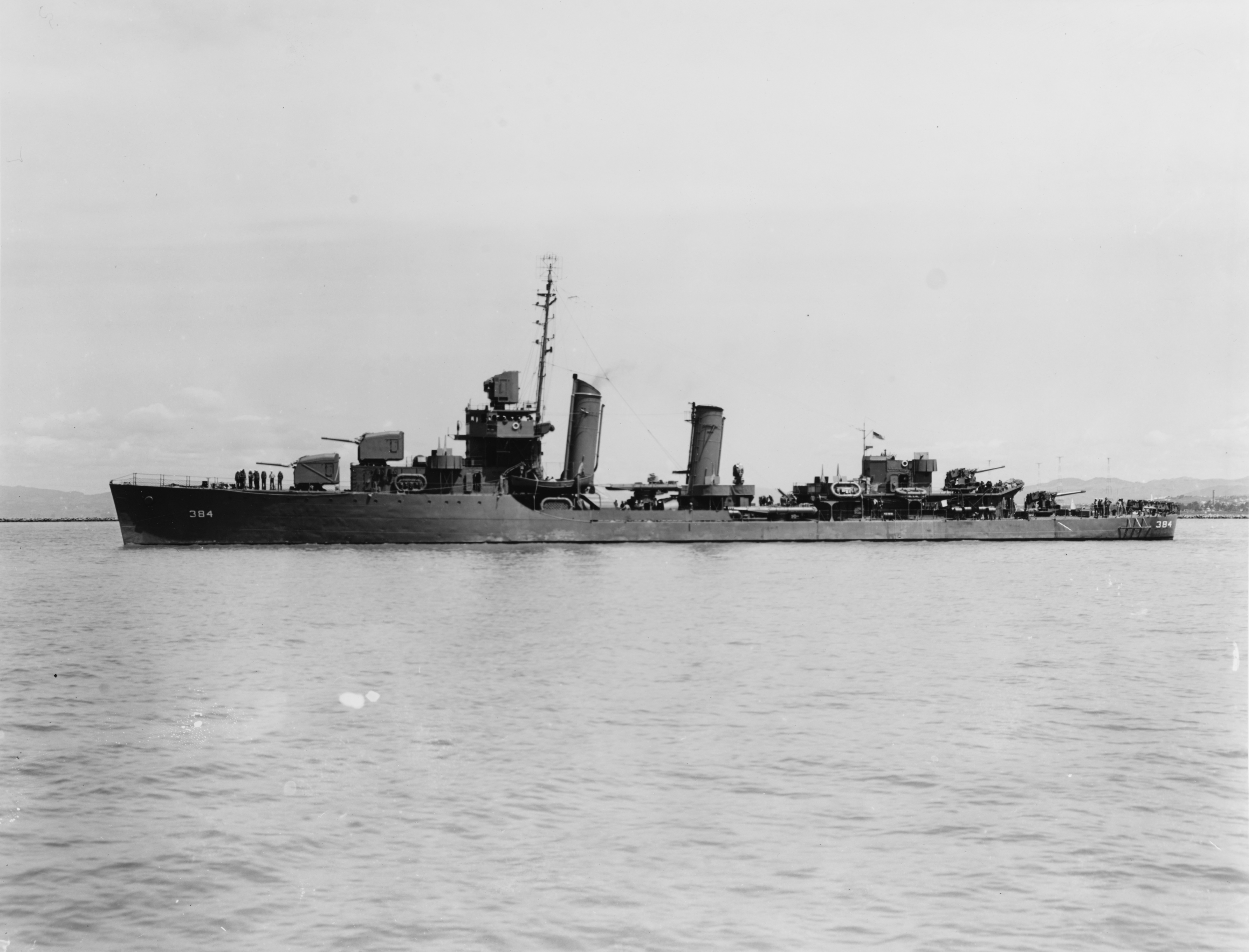 USS Dunlap (DD-384) off the Mare Island Navy Yard, California, 10 May 1942. Photograph from the Bureau of Ships Collection in the U.S. National Archives.